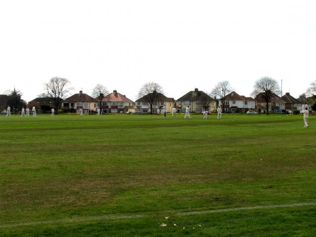 Broadwater West Sussex: Recreational Ground next to the Fire Station. This recreational ground is situated mostly in the north western section of the grid square and is adjacent to the Fire Station.